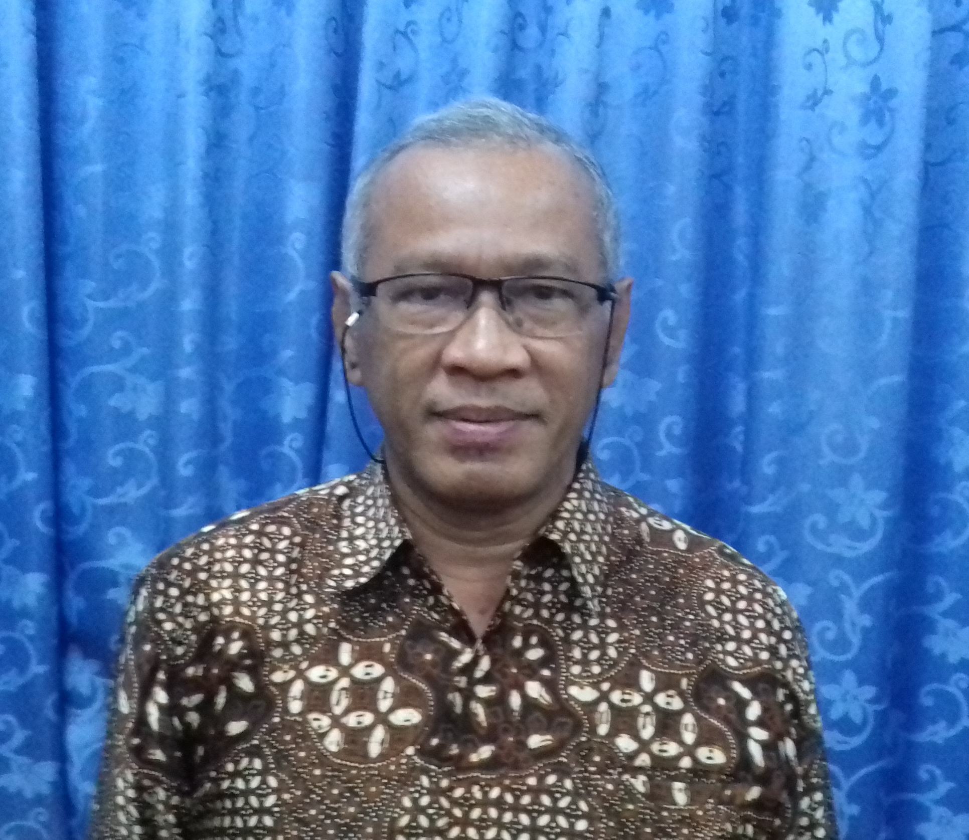 Expert staff of the Deputy Chair of the Republic of Indonesia People's Consultative Assembly for the period 2004-2014